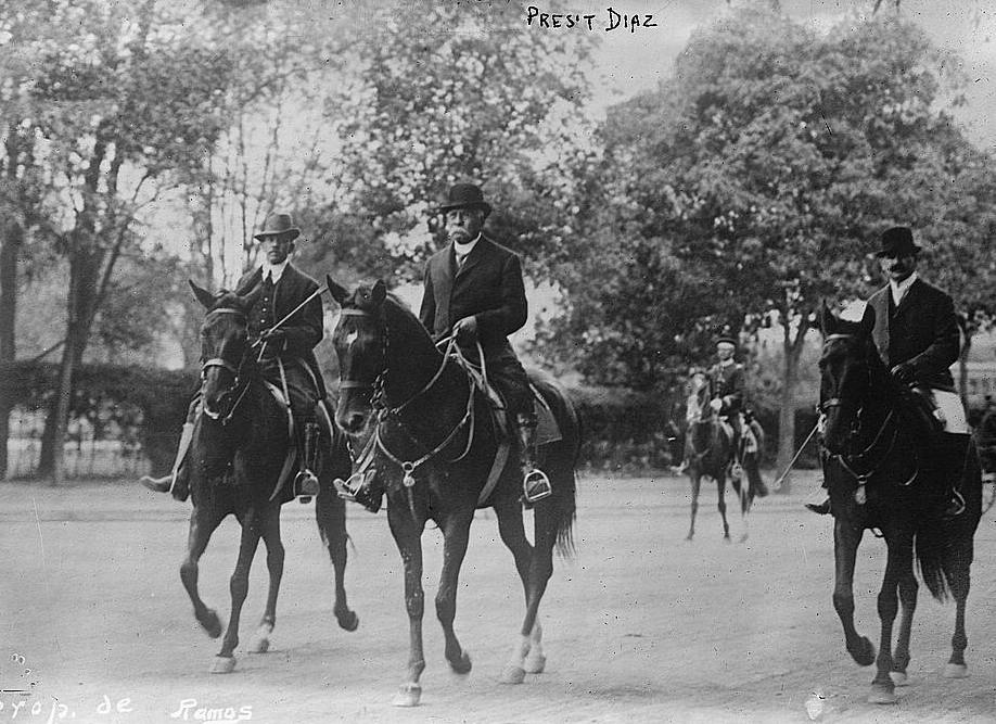 Bain News Service,, publisher. President Diaz [between 1910 and 1915] 1 negative : glass ; 5 x 7 in. or smaller. Notes: Title from unverified data provided by the Bain News Service on the negatives or caption cards. Forms part of: George Grantham Bain Collection (Library of Congress). Subjects: Mexico Format: Glass negatives. Repository: Library of Congress, Prints and Photographs Division, Washington, D.C. 20540 USA, General information about the Bain Collection is available at Persistent URL: Call Number: LC-B2- 2222-6